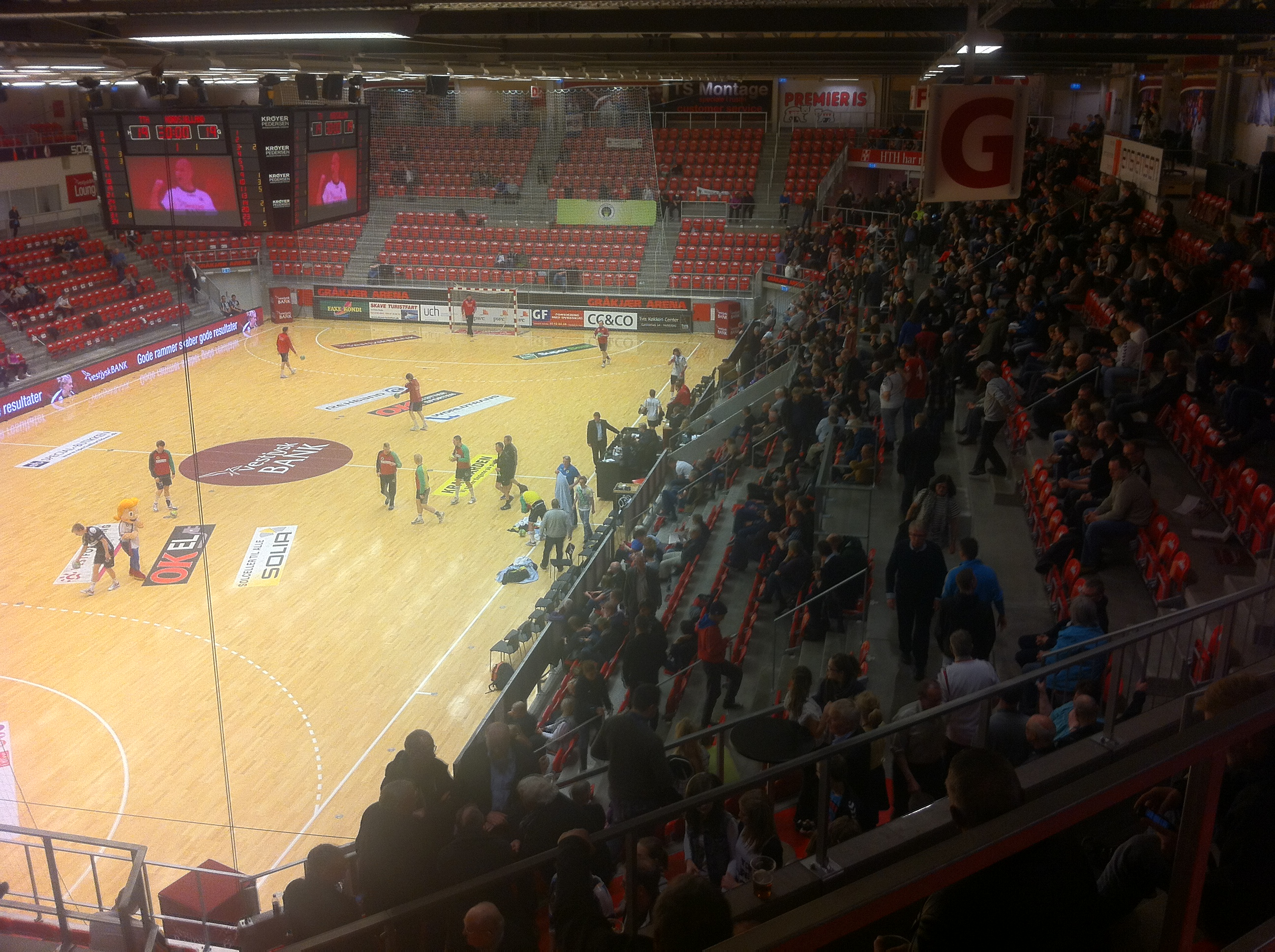 Graakjaer Arena 21-03-12. TTH v NordsjaellandDansk: Graakjaer Arena 21-03-12. TTH v Nordsjaelland. Kampfakta